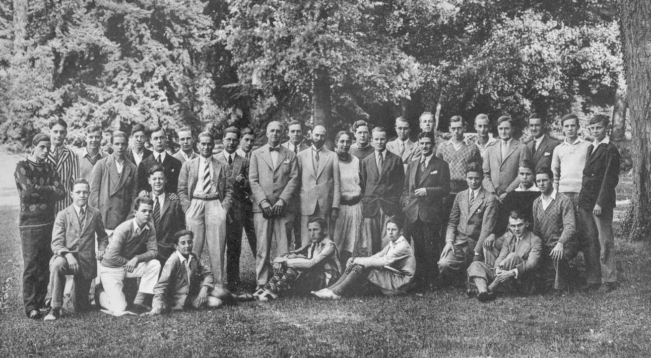 The schoolboys and headmasters of the International Schoolboy Fellowship outside the École du Montcel in summer 1928. Pictured center in the bow-tie is the Chairman and Tabor Academy headmaster Walter H. Lillard.